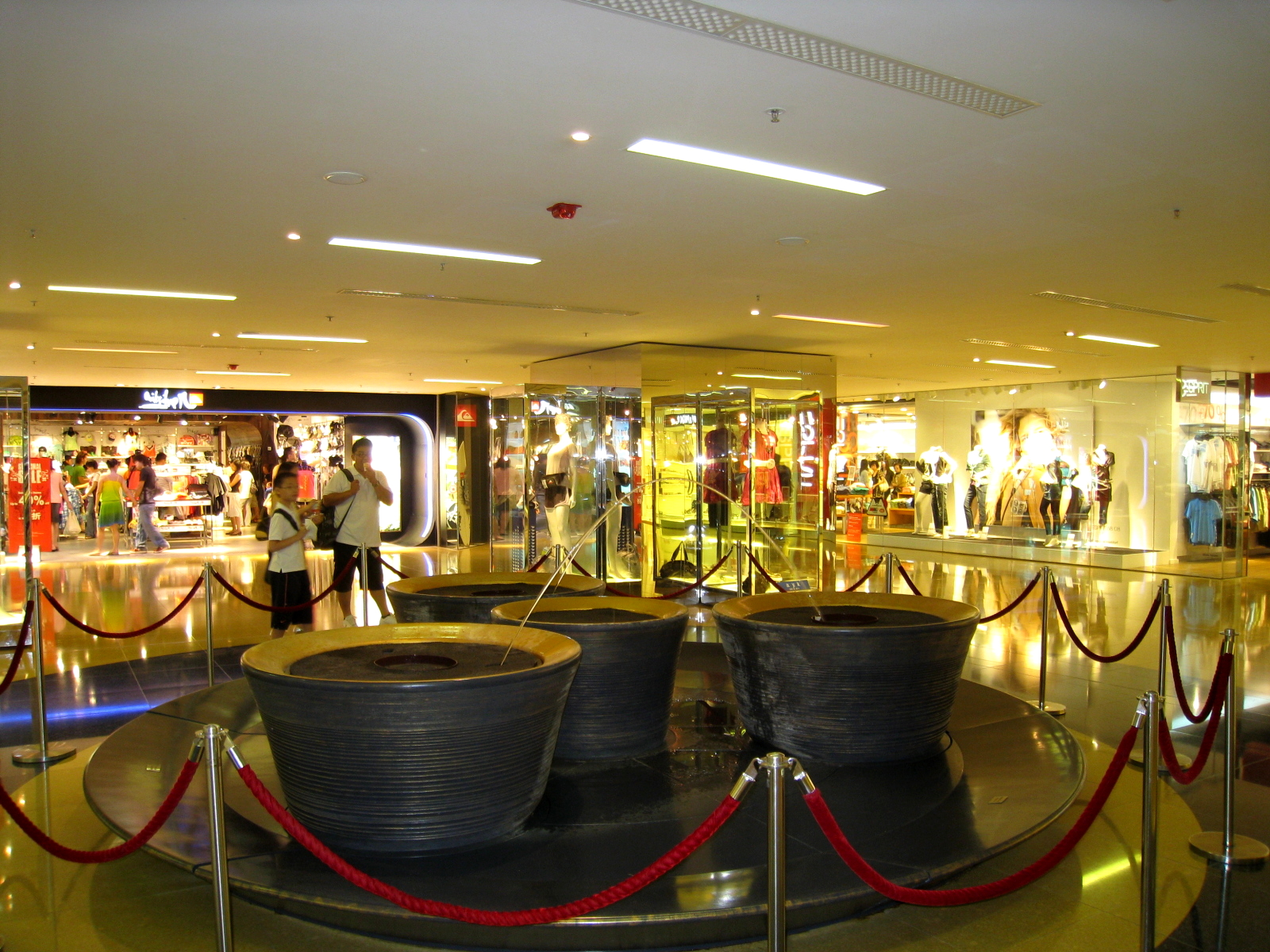 HK Cityplaza Phase 1 Fountain 太古城中心商場內的跳躍噴泉